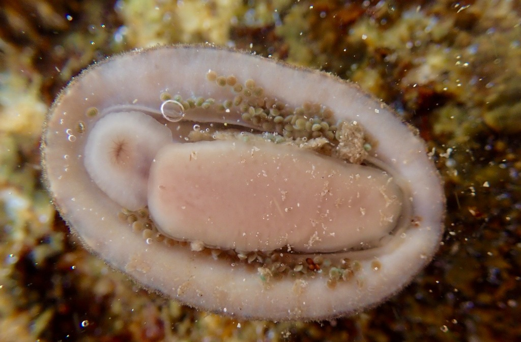 Radsia nigrovirescens, underside close-up; juvenile chitons are visible clustered underneath the girdle